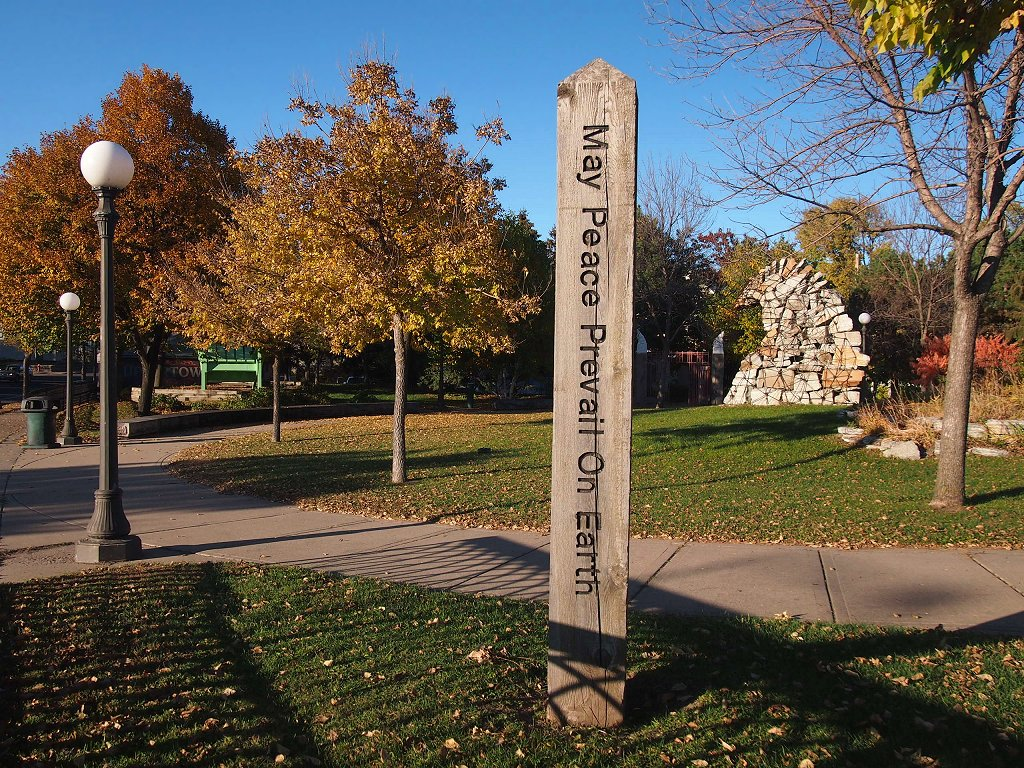 North High Bridge Park, 476 Smith Ave, St Paul, Minnesota, USA.